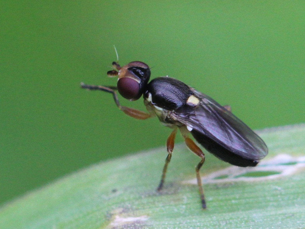 Cetema cereris